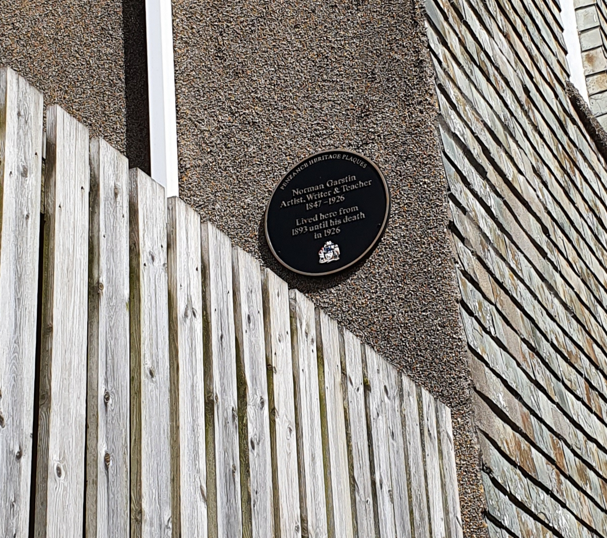 Norman Garstin (1874-1926), lived at Wellington Place, Penzance from 1893 until his death in 1926. He taught at the nearby Penzance School of Art.